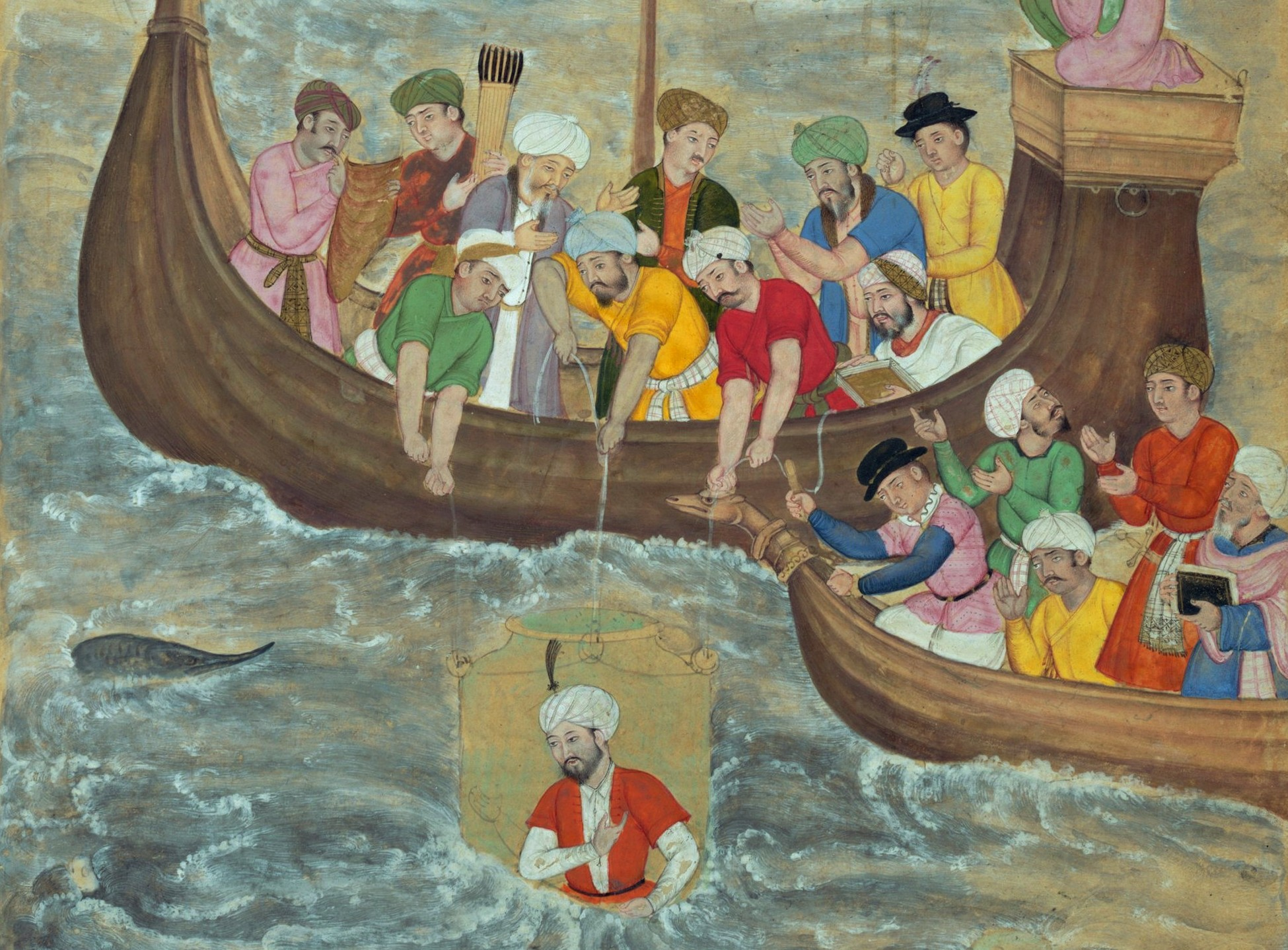 A 16th-century Islamic painting depicting Alexander the Great being lowered in a glass submersible. Original description: 16th century painting of Alexander the Great, lowered in a glass diving bell. Image ID: nur09514, Voyage To Inner Space - Exploring the Seas With NOAA Collect Credit: OAR/National Undersea Research Program (NURP); "Seas, Maps and Men"